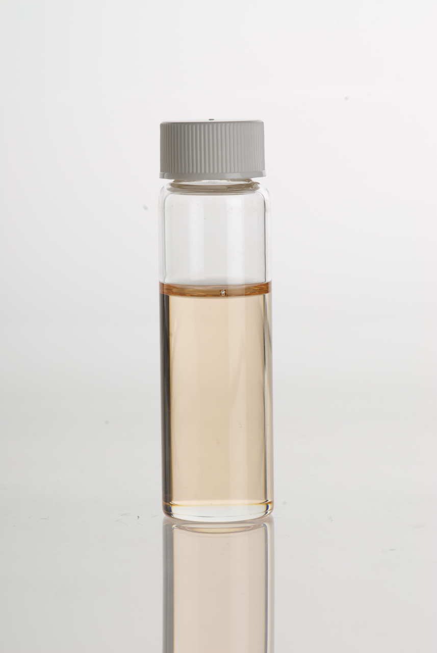 Wintergreen (Gaultheria procumbens) Essential Oil in clear glass vial